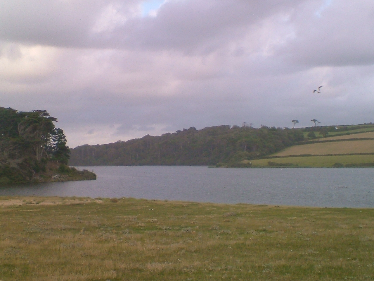 Self made pic